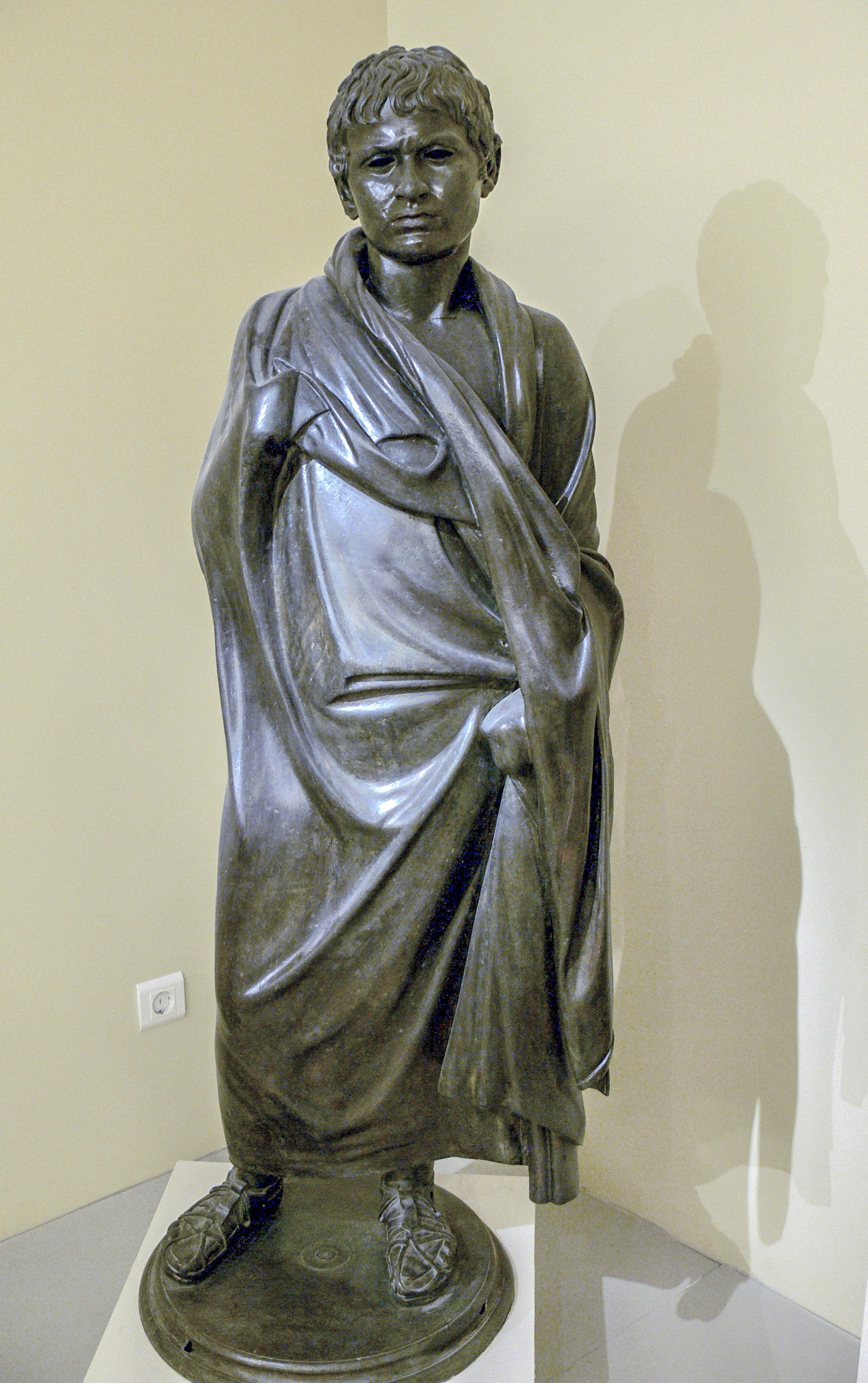 Archaeological Museum in Herakleion. Bronze portrait statue of a youth, wearing a cloak. Ierapetra, late hellenistic period ( 1st c. B.C. )